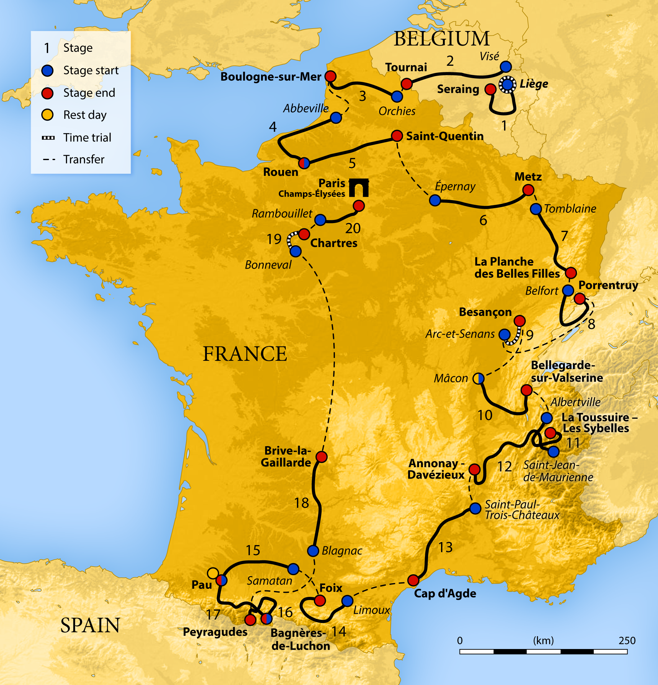 Route map of the 2012 Tour de France.